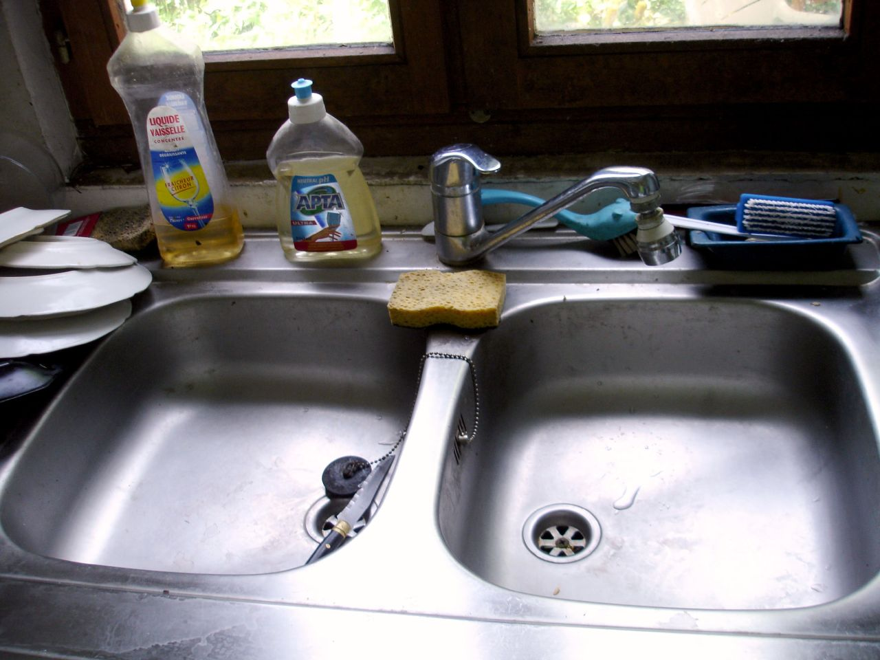 For once, it is empty...